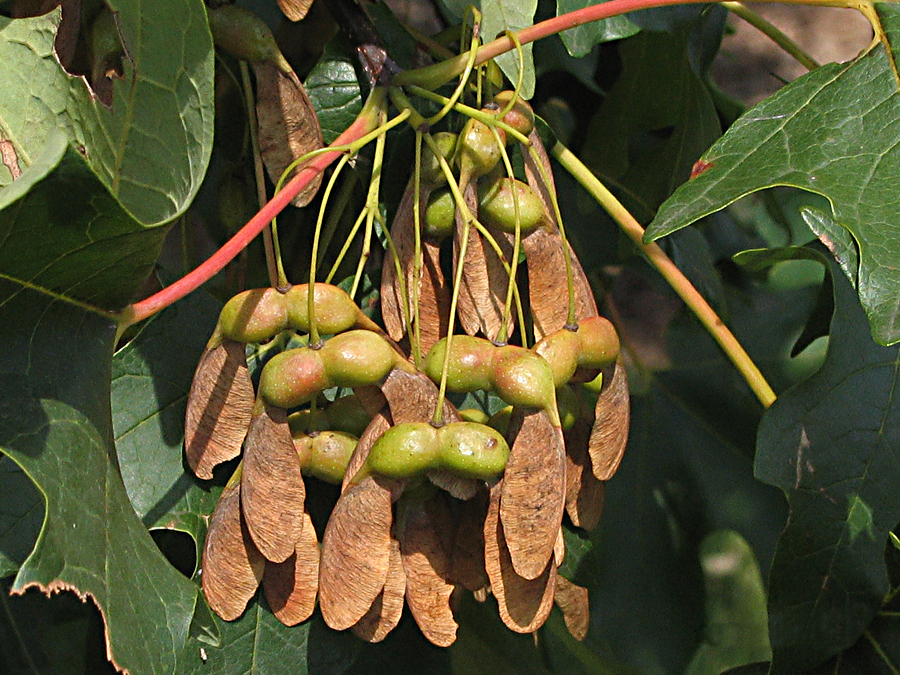 Acer saccharum fruit, samara, sugar maple tree, Acer saccharum. Specimen at Morton Arboretum, Lisle, Illinois. Accession 160-94*2